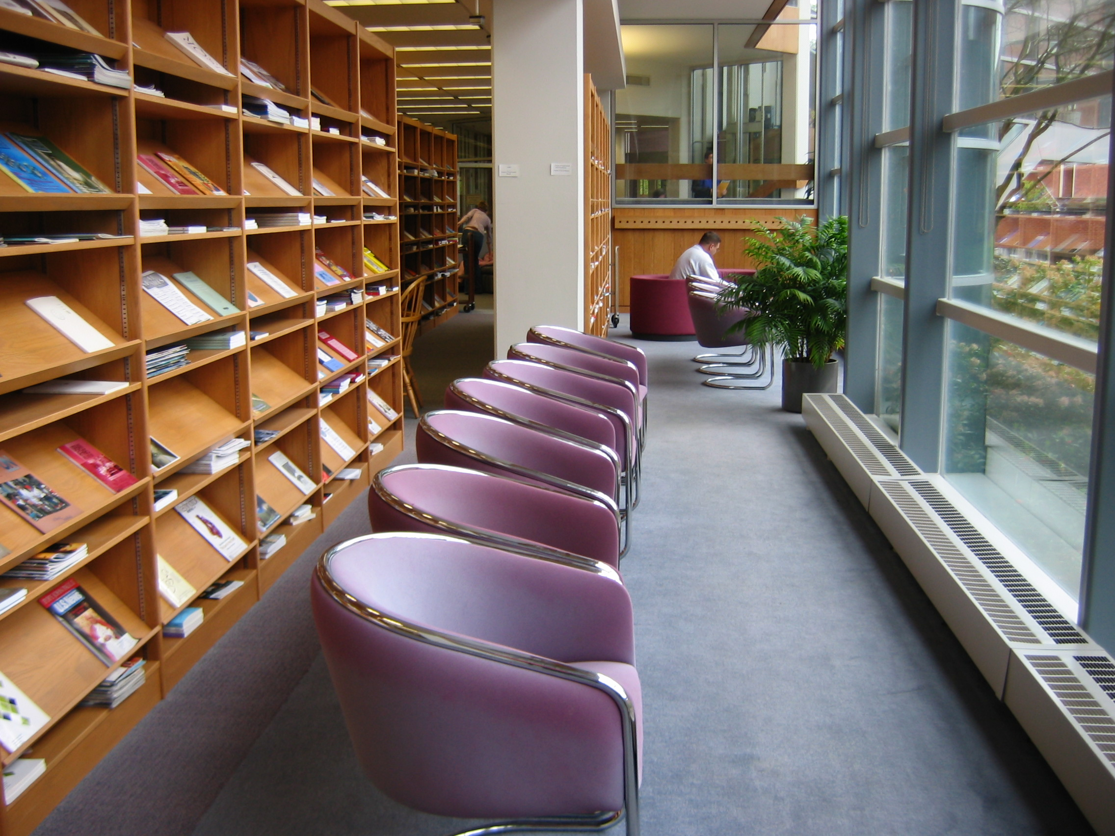 Mark O. Hatfield Library at Willamette University, photographed by me.